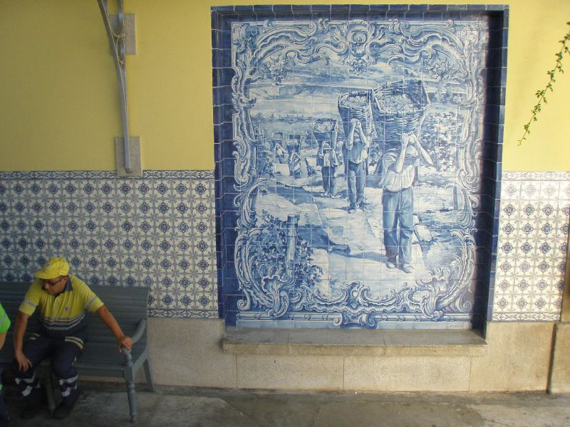 Railway station of Pocinho